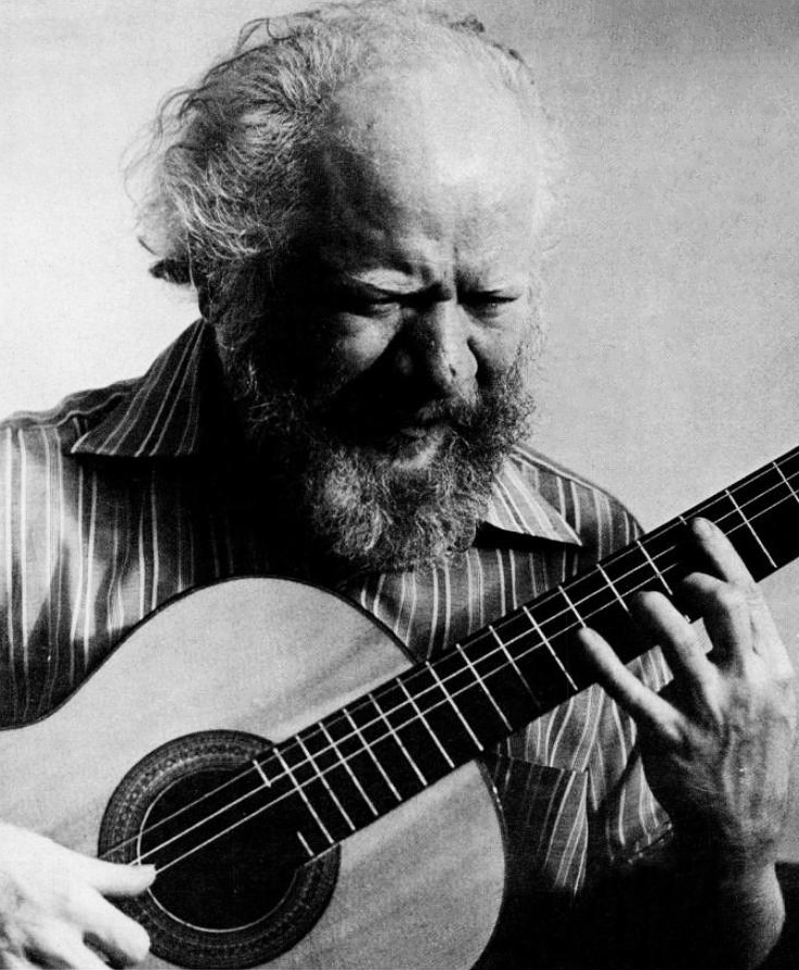 Trade ad for Sivuca's single "Joy".To better adapt it to his respective Wikipedia article, the ad was cropped and cleaned in a graphics editing program. The original can be viewed at the source below.